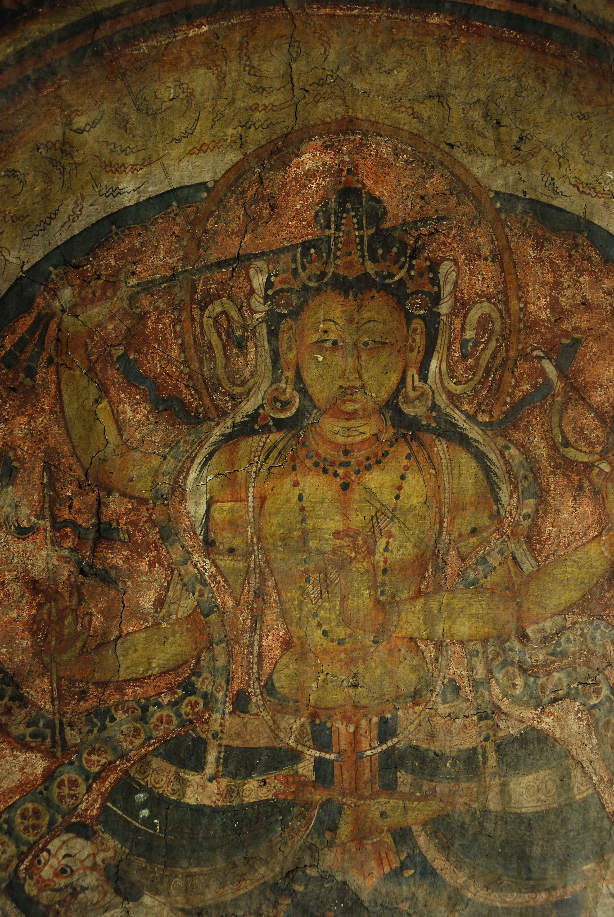 Painting of Manjusri, Sakyamuni temple, Mangyu. Taken by Sreekumar Menon, during his first visit to Mangyu in 2009. One of the best paintings not only in Mangyu temple complex but also of the early period paintings in the region.